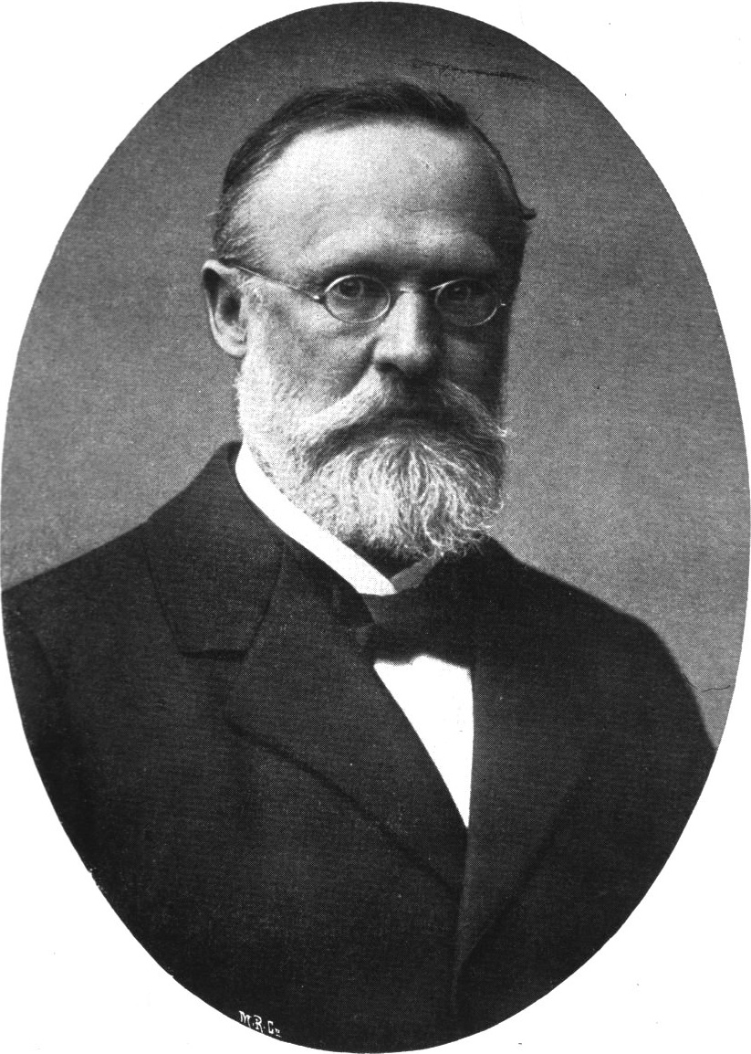 Wilhelm Heinrich Erb